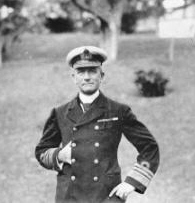 Portrait of Vice Admiral Sir George Patey KCMG, KCVO, a senior officer in the British Royal Navy.